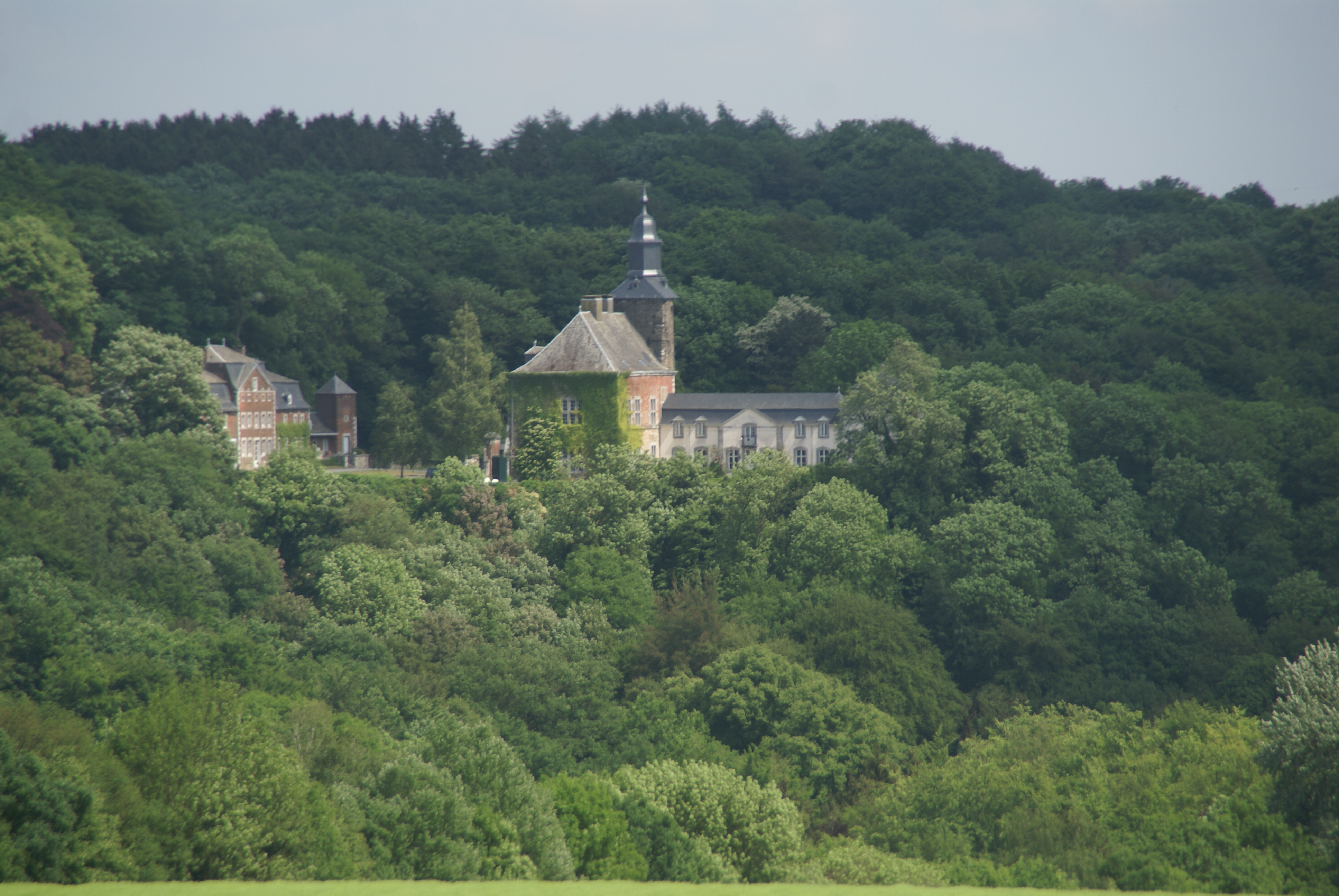 Flémalle (Gleixhe), Belgium: Hautepenne Castle seen from the public footpath number 1